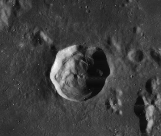 Mosting, on the moon.